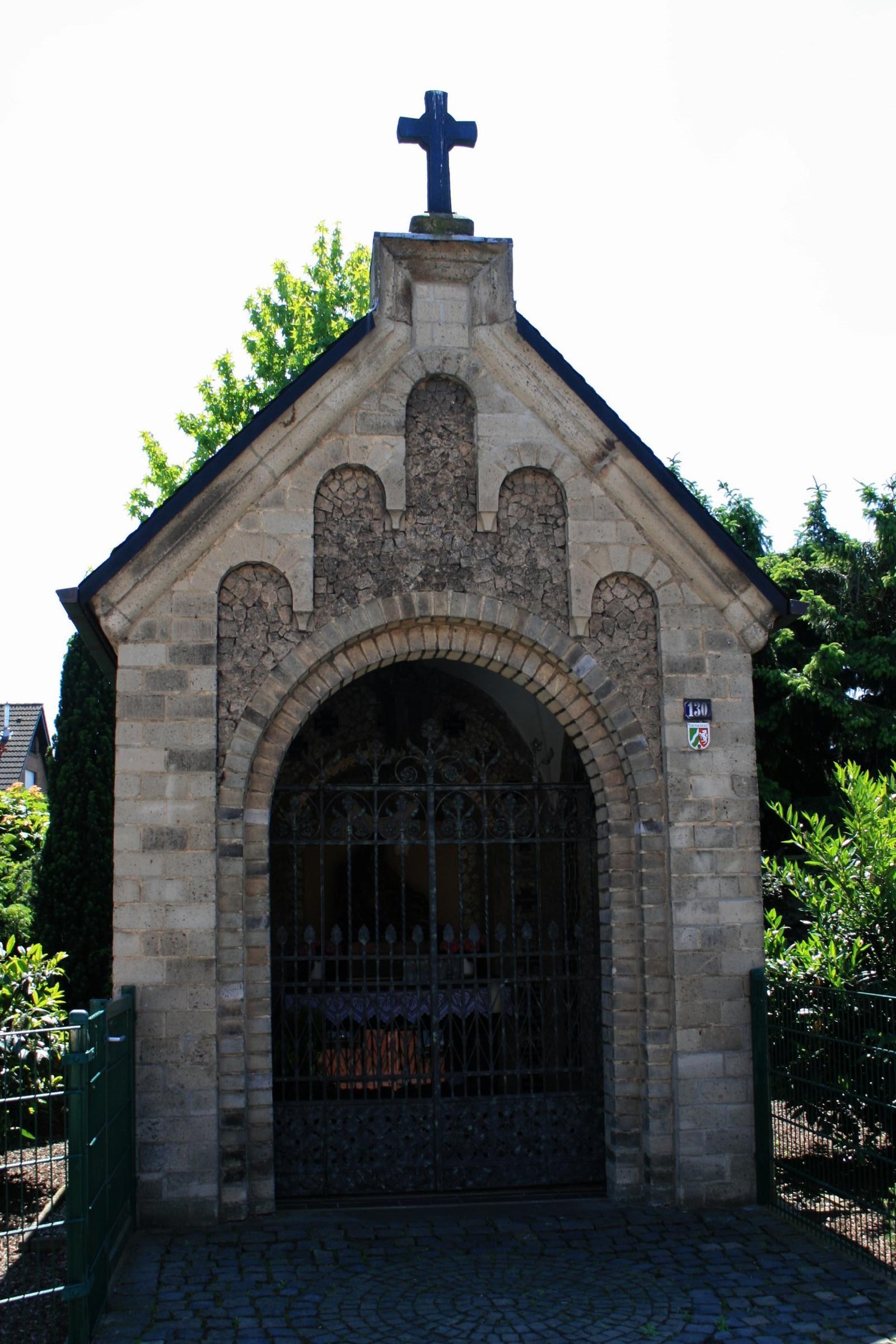 Cultural heritage monument No. D 026 in Mönchengladbach